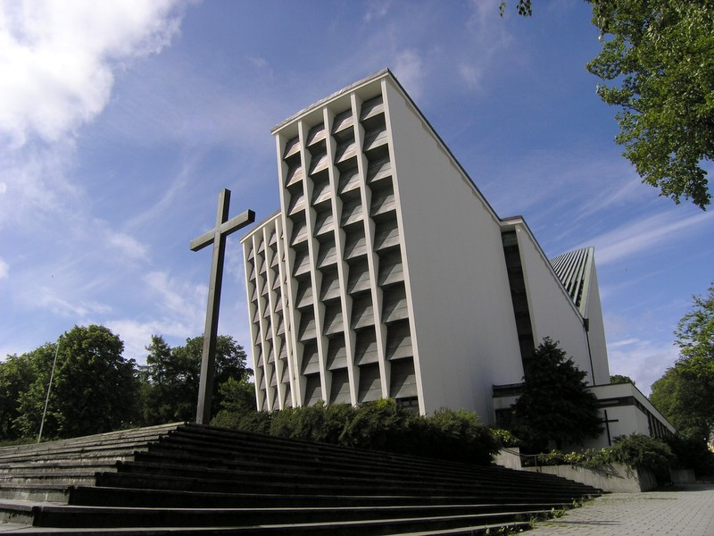 Kirkelandet church seen from the street Langveien.